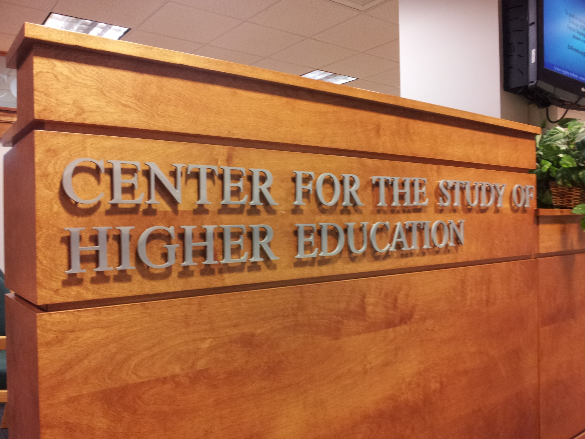 Picture of the sign at the Center for the Study of Higher Education.